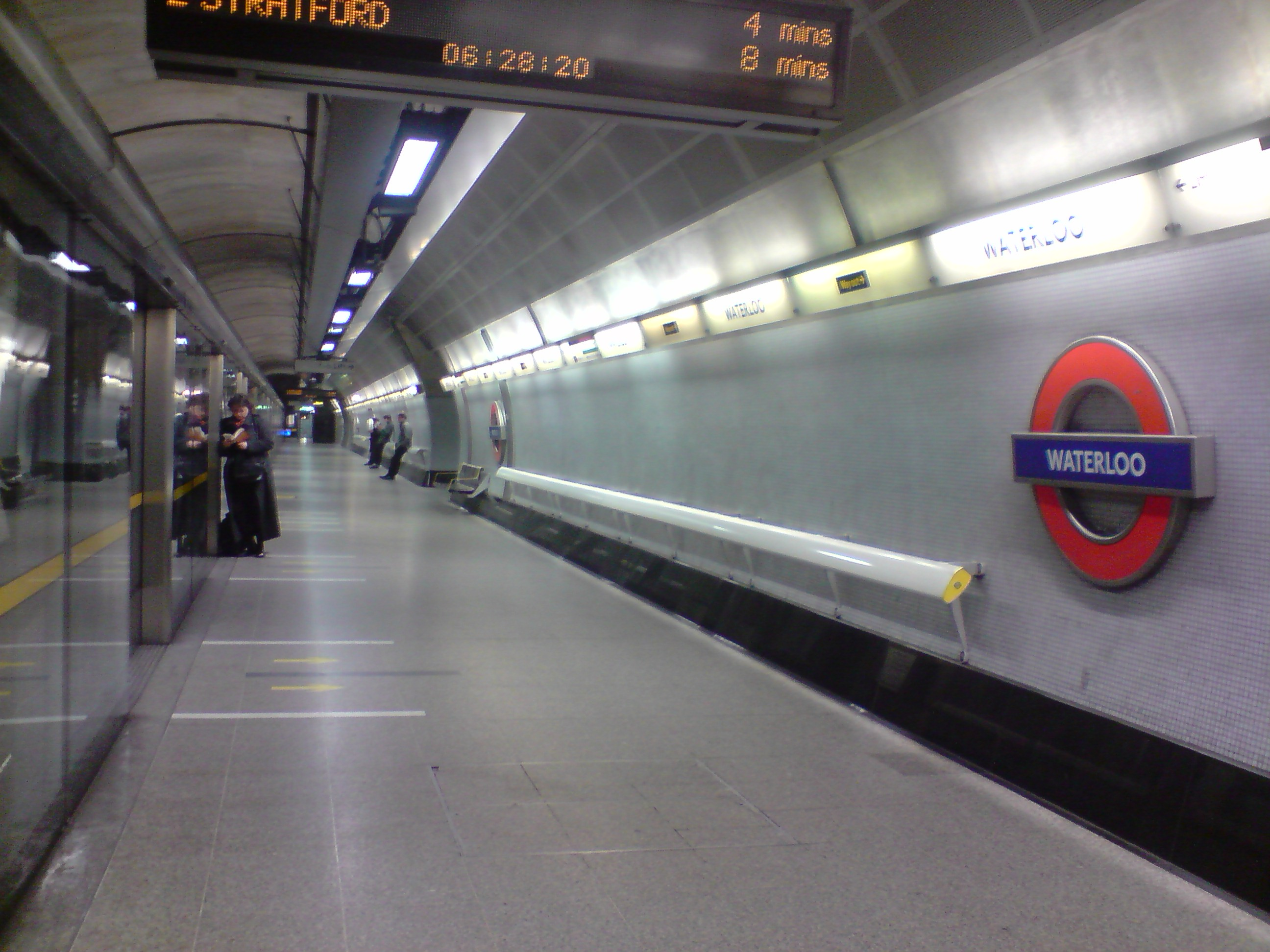 Jubilee line platforms @ Waterloo station